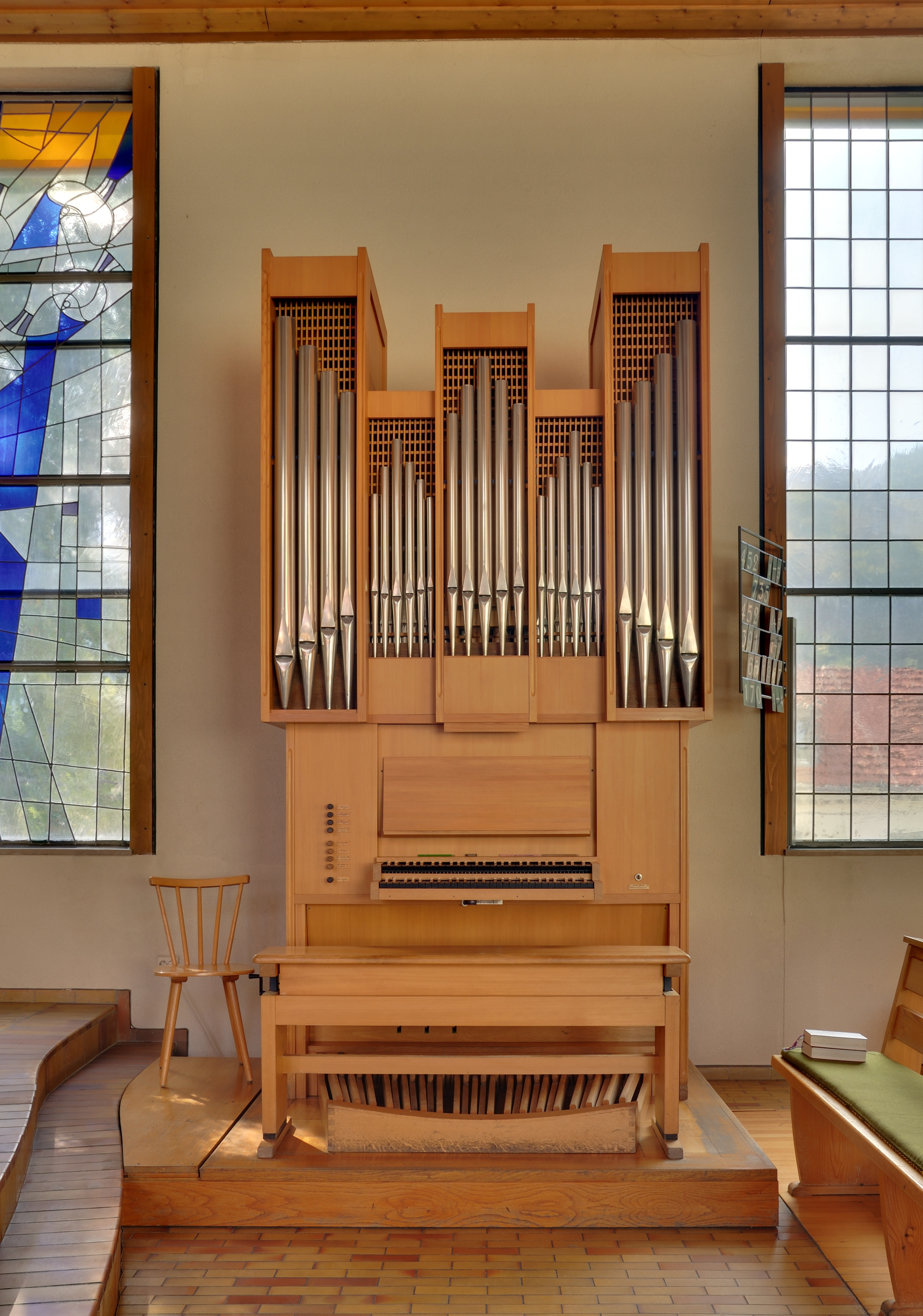 Todtnau: Christ the King churches